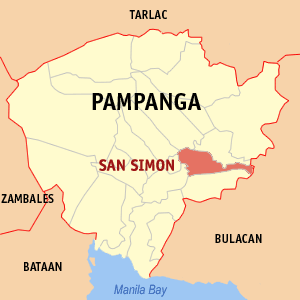 Map of Pampanga showing the location of San Simon